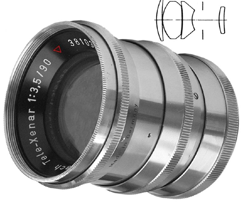 Schneider-Kreuznach Tele-Xenar 1:3,5/90mm (Akarette) lens